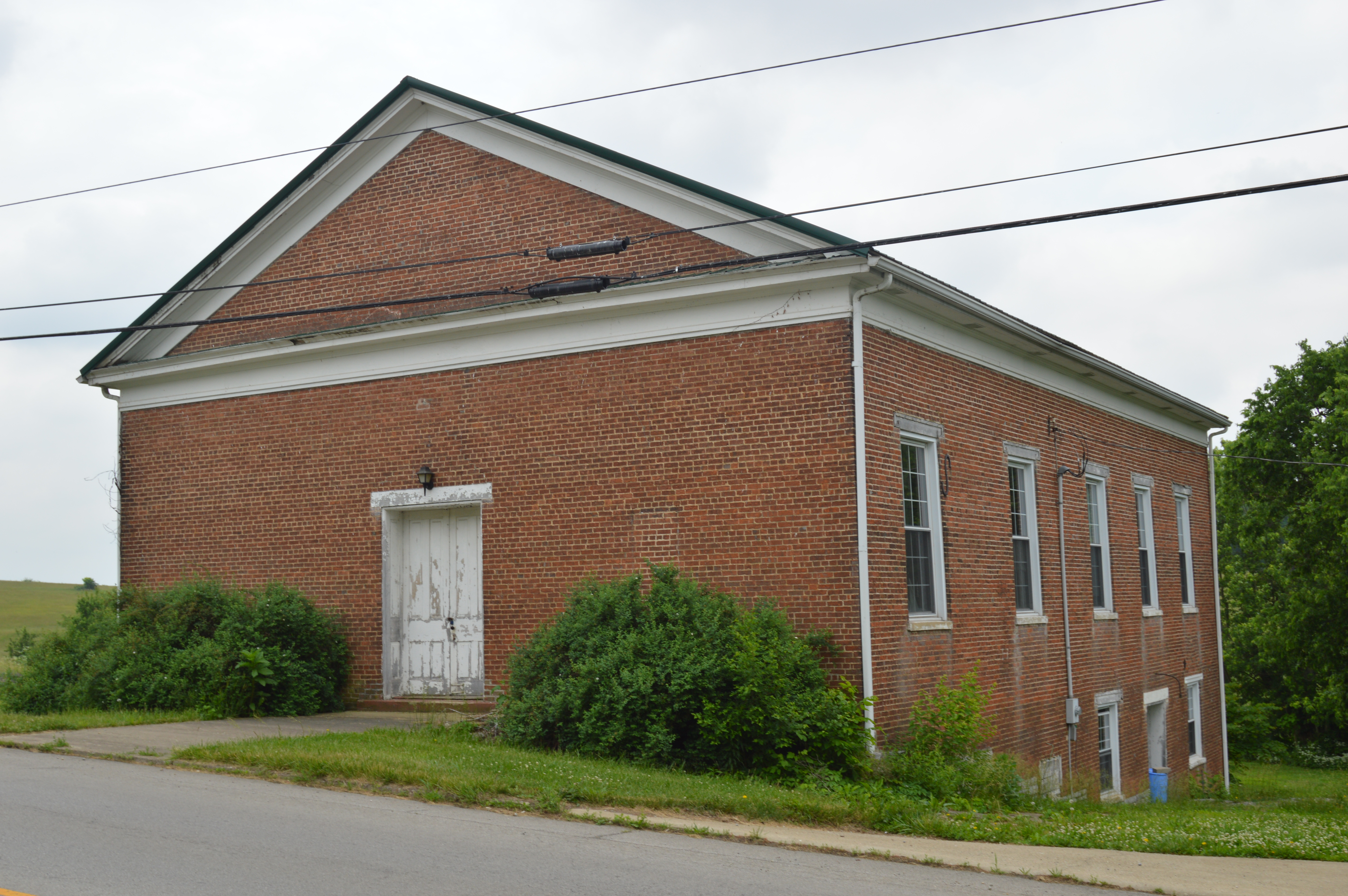 Front and western side of the former Elizaville Presbyterian Church, located on the southern side of Kentucky Route 32 east of the Kentucky Route 170 intersection in Elizaville, Kentucky, United States. Built in 1861, it is listed on the National Register of Historic Places.